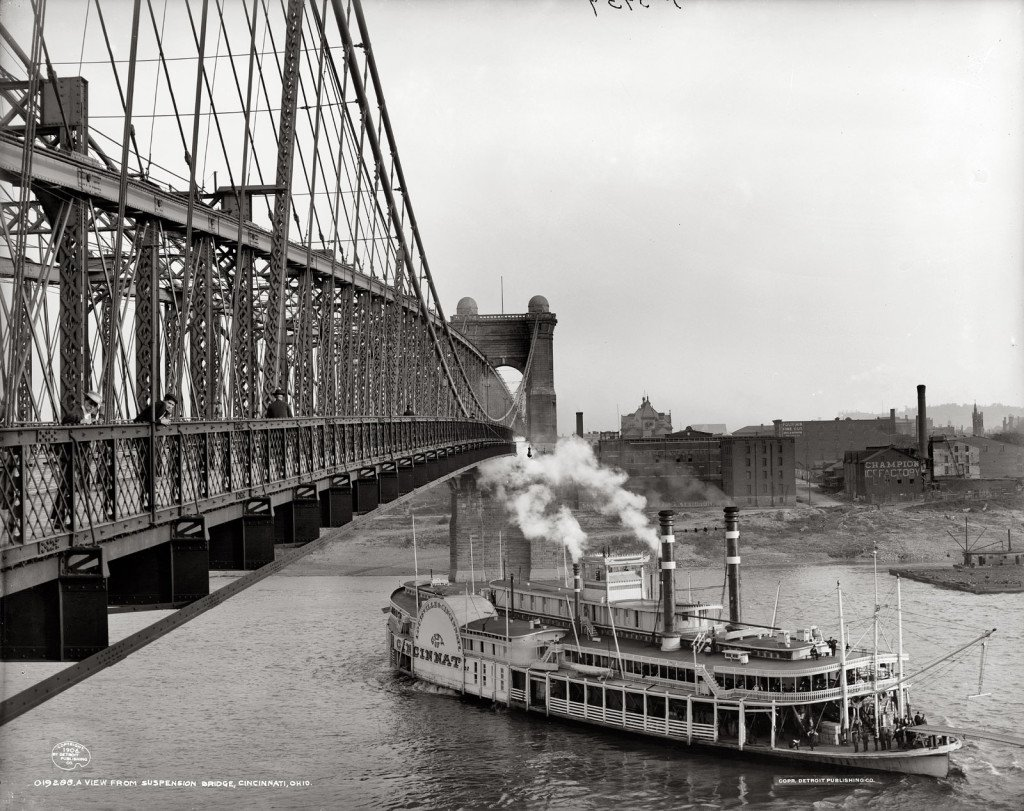 Roebling Suspension Bridge in 1906